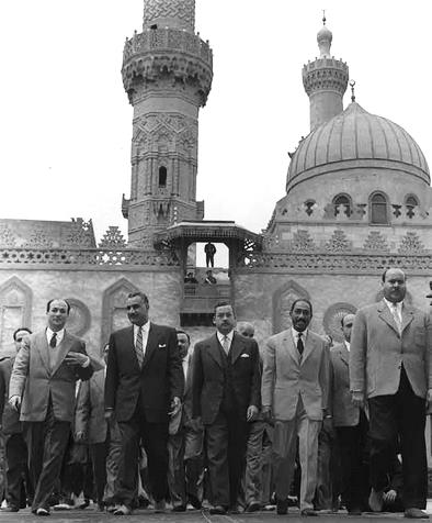 Egyptian officials in front of the al-Azhar Mosque during prayers for the last Friday of Ramadan. From left to right: Zakaria Mohieddin, Gamal Abdel Nasser, Hussein el-Shafei and Anwar Sadat.